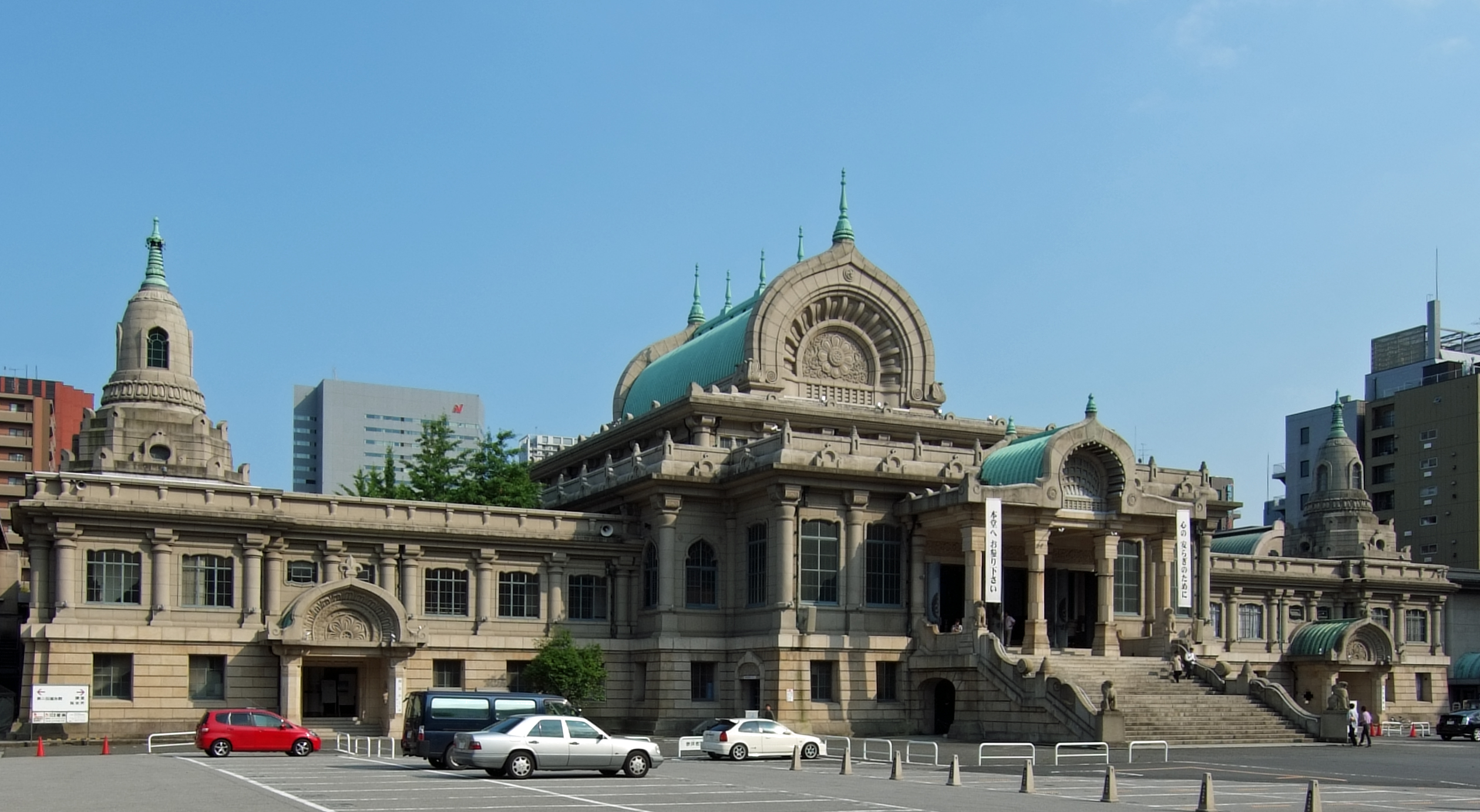 Tsukiji Hongan-ji is a Buddhist temple in Tsukiji, Chuo-ku, Tokyo, Japan.